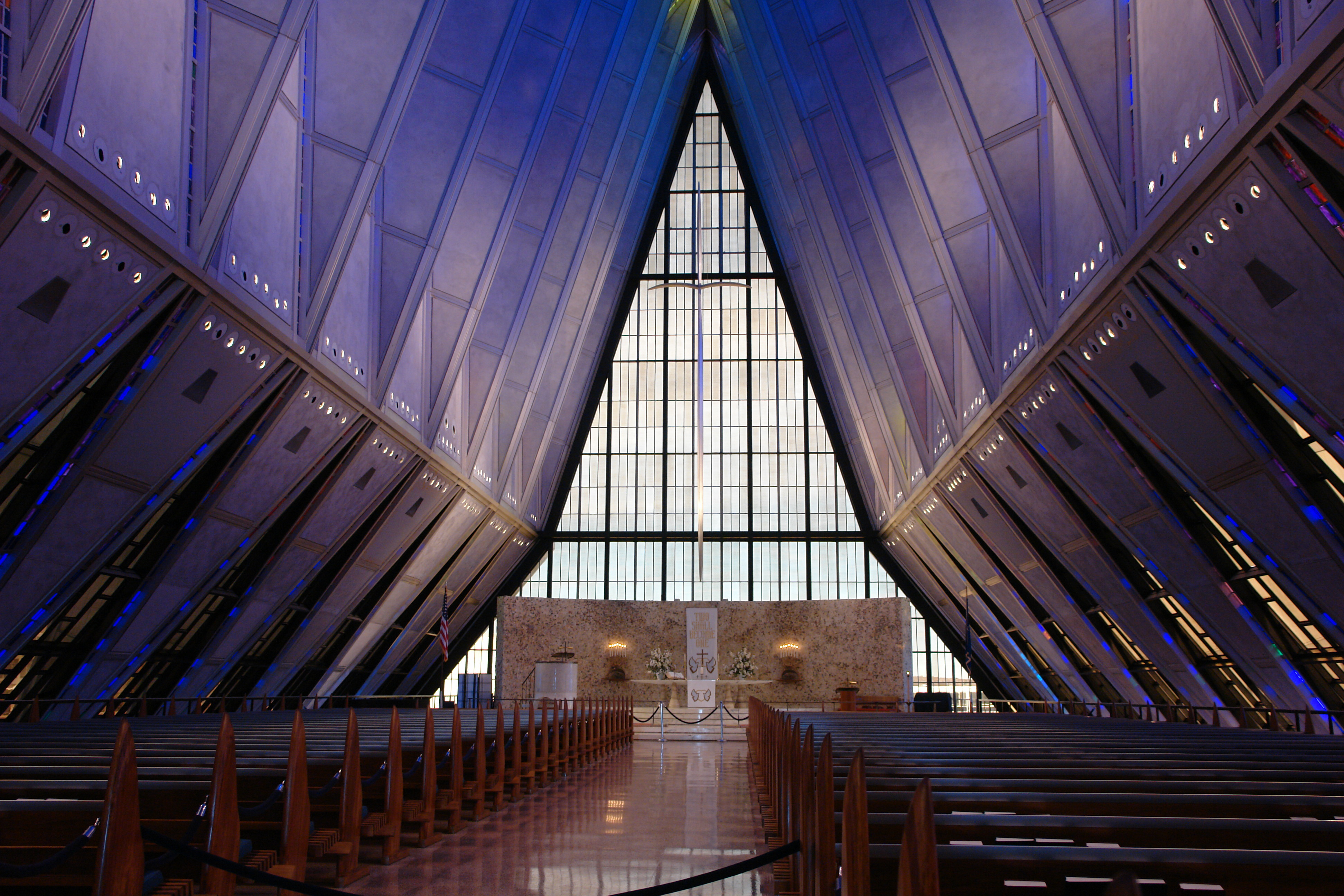 The Protestant Chapel in the Air Force Academy Cadet Chapel. This occupies most of the top floor. Catholic, Jewish, Buddhist, and Multi-Faith Chapels occupy the basement (not pictured here).